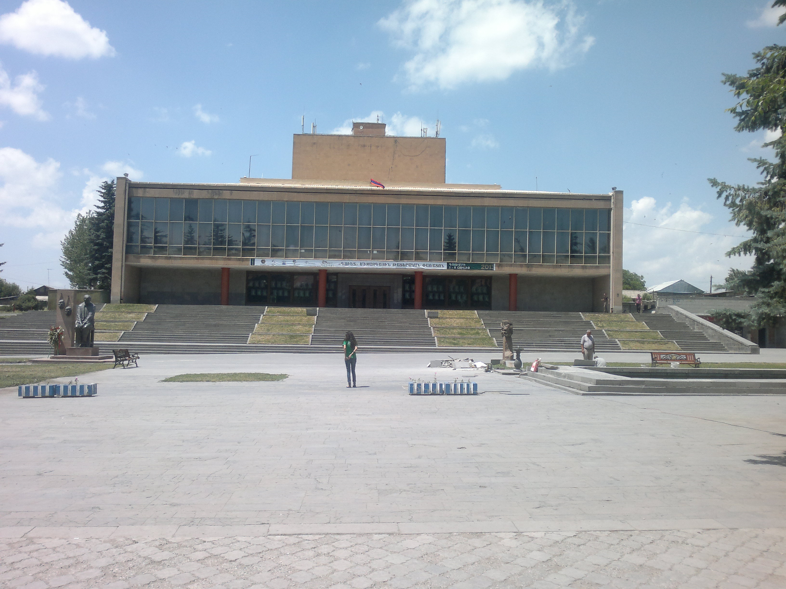 Գյումրու դրամատիկական թատրոն